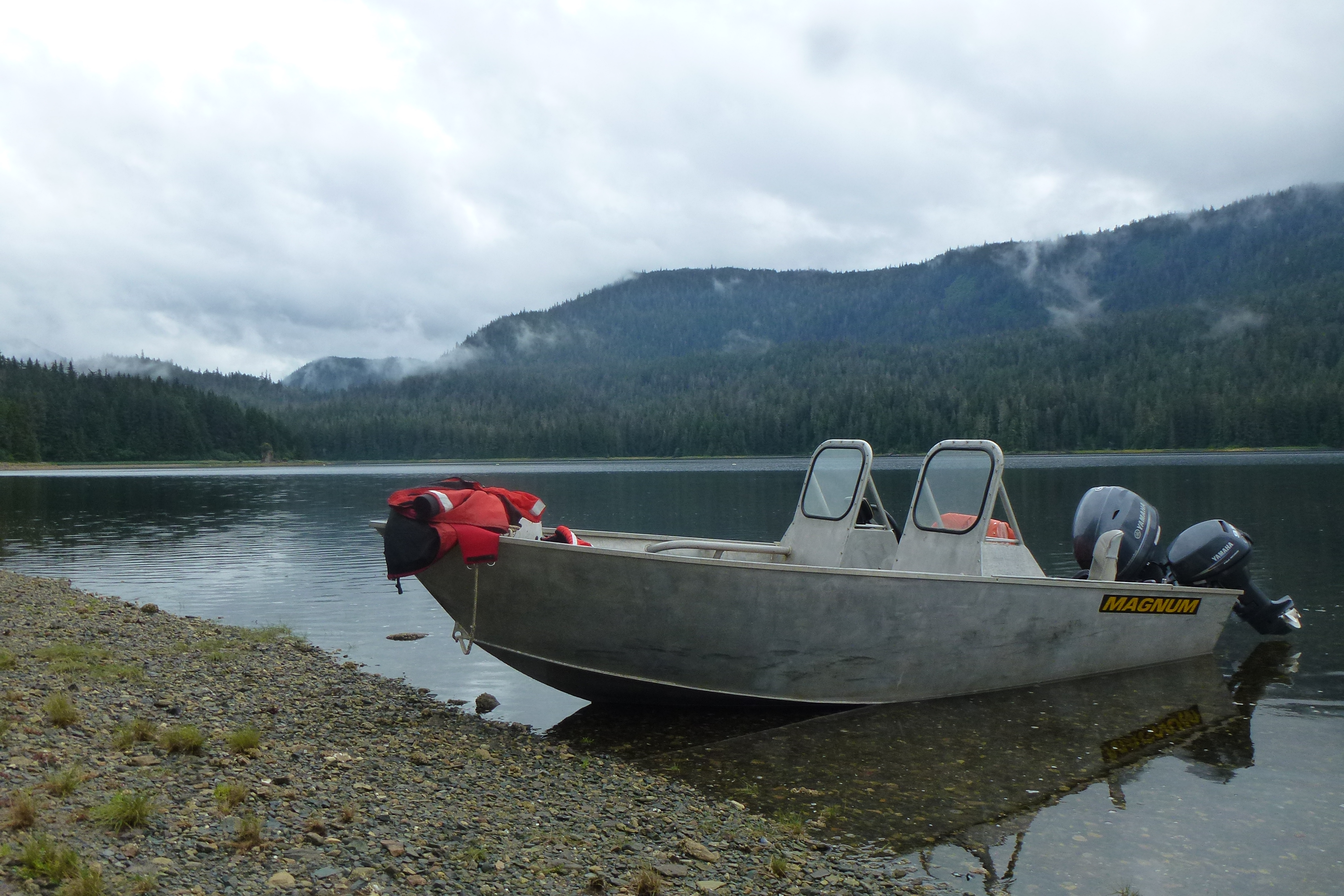 Mitchell Bay in the Admiralty Island National Monument.